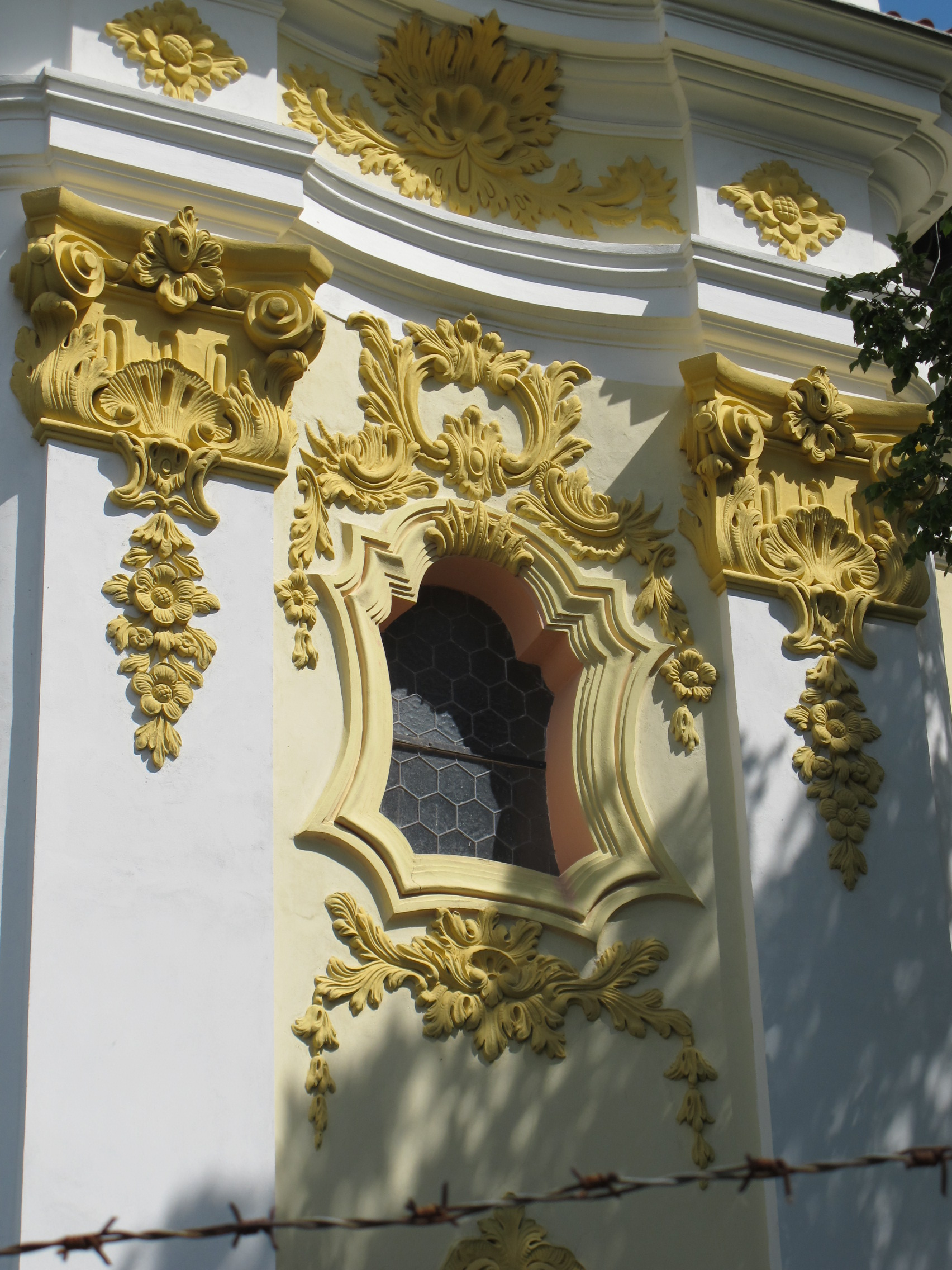 Window on the church in Libočany